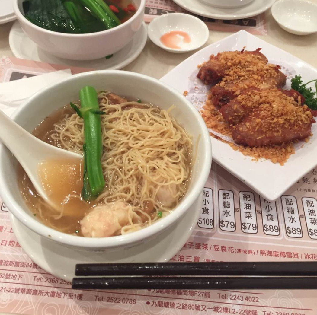 Yuntunmian